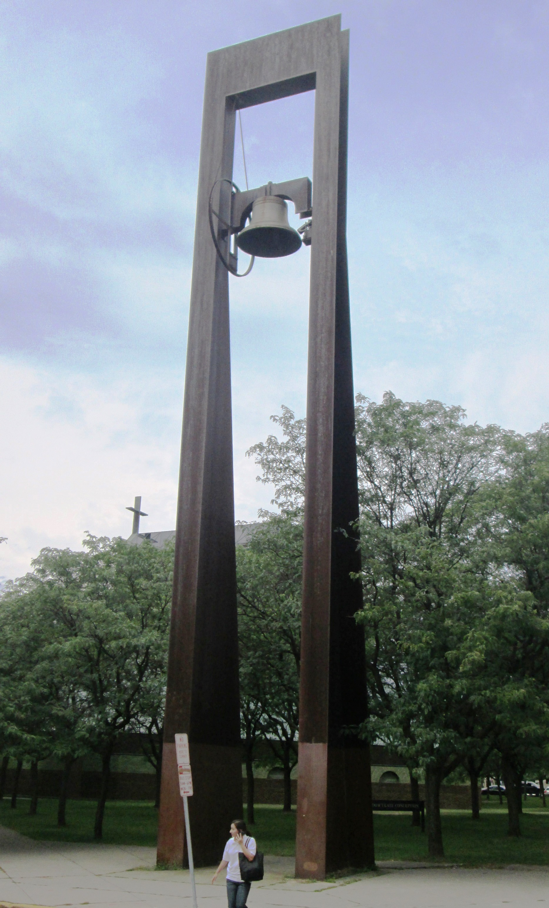 The Roman Catholic Cathedral of the Immaculate Conception in Burlington Vermont, at 20 Pine Street, with grounds bounded by Pearl, St. Paul, and Cherry Streets, was built in 1974-77 and was designed by Edward Larrabee Barnes, with the grounds designed by landscape architect Dan Kiley. It replaced a cathedral of the same name built in 1862-67 that burned down in 1972. The Diocese of Burlington was established in 1852.